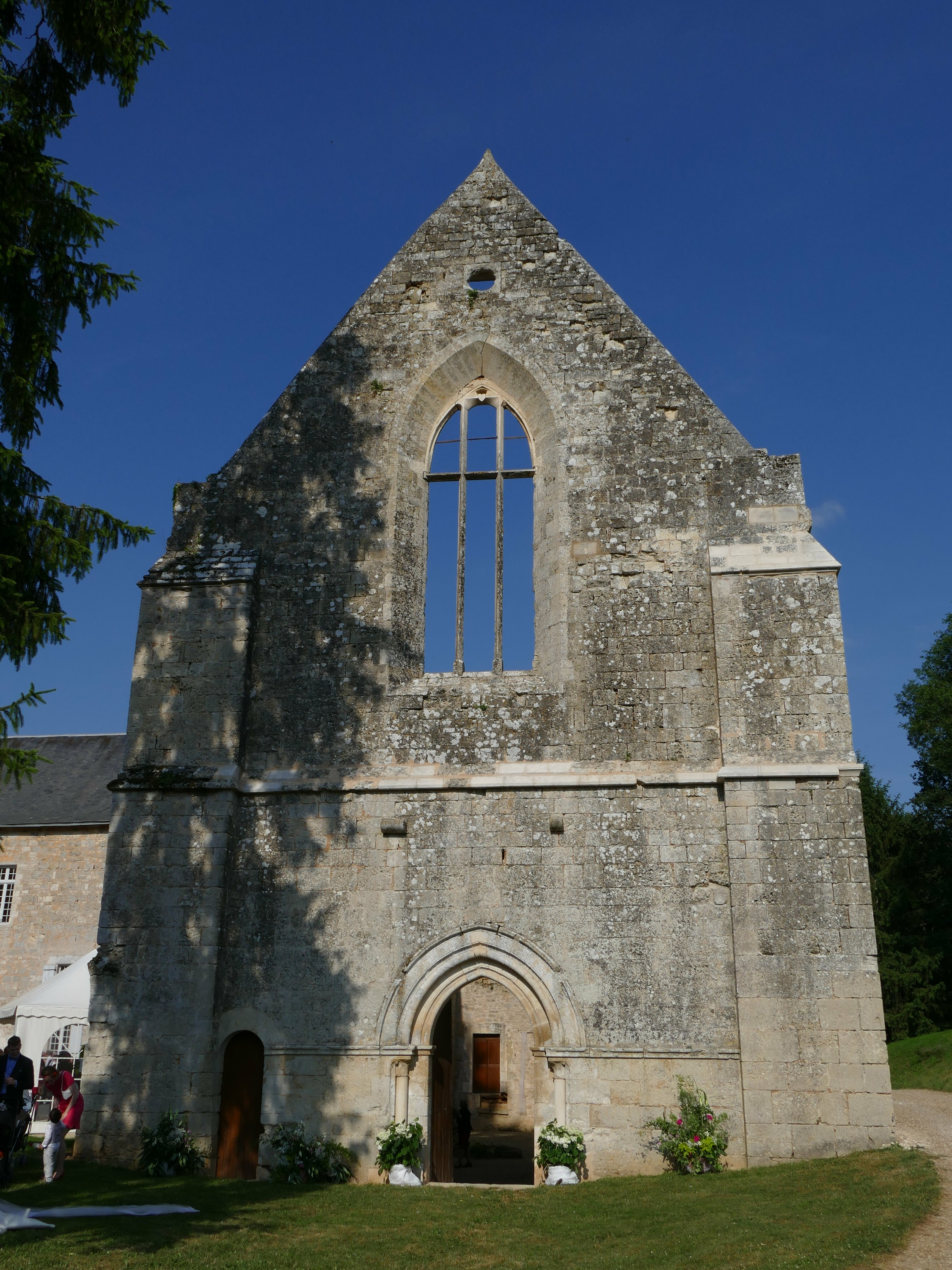 Abbatial church of the former abbey Notre-Dame-du-Pin in Béruges (Vienne, Poitou-Charentes, France).